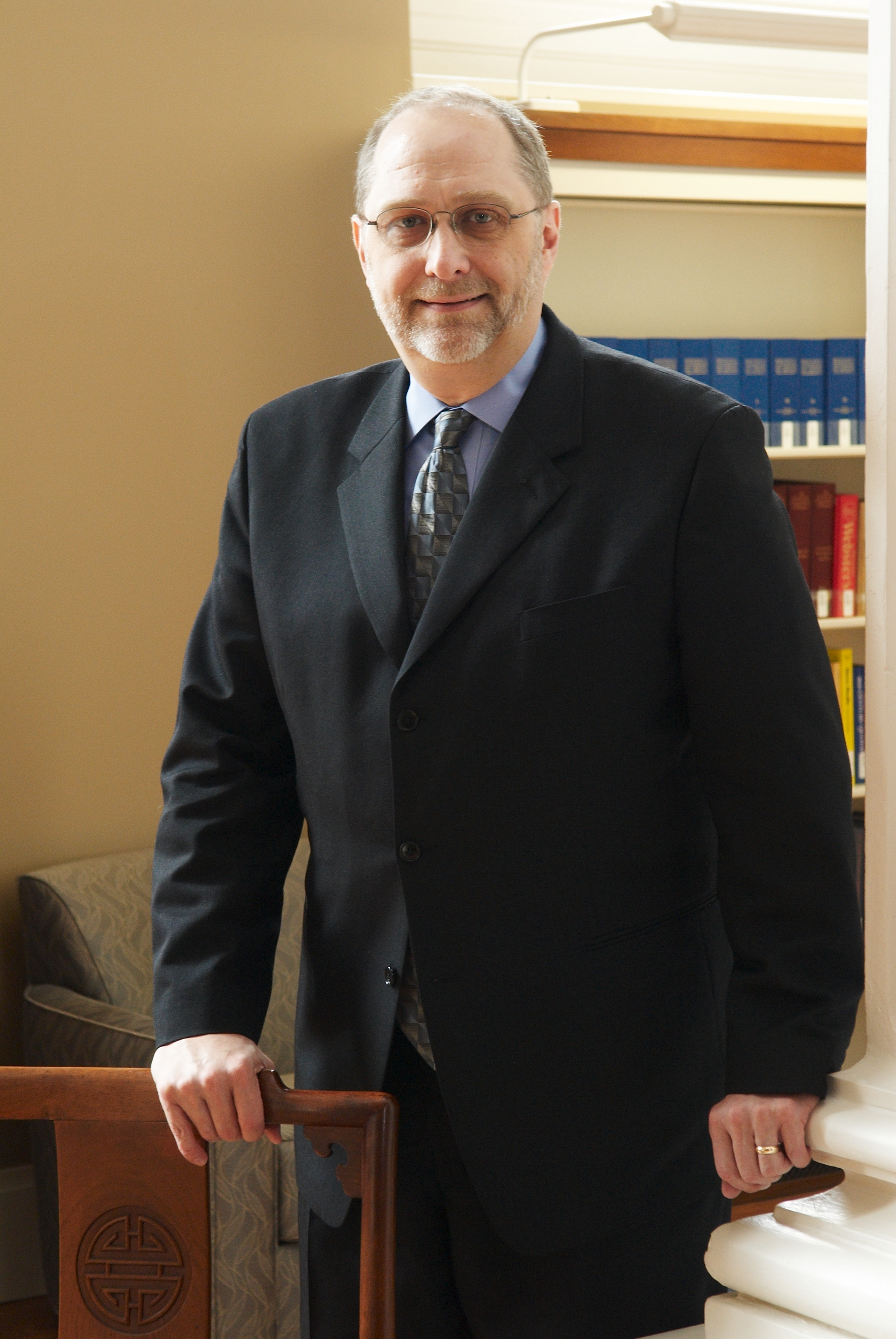 Photograph of Bruce A. Fuchs, speaker at LISE 2007 (Leadership Initiative in Science Education, 7th Annual Conference), "21st Century Science Education: Preparing Teachers and Students for the Future", April 16-17 2007, organized by the Chemical Heritage Foundation.